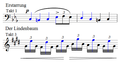 Parts from the song "The Lindenbaum" from Franz Schuberts songcycle "The Winterreise"